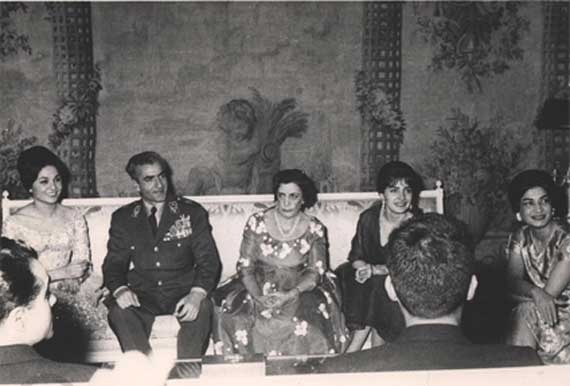 From left to right: Farah Diba, Mohammad Reza Shah, Tadj ol-Molouk, Shahnaz, and Ashraf (at Mohammad Reza and Farah's engagement ceremony).